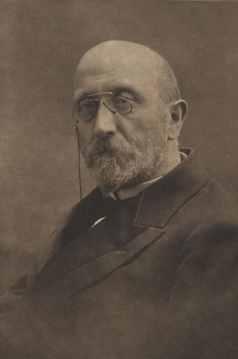 Samuel Abraham Poznański or Shemuel Avraham Poznanski ( Hebrew: שמואל אברהם פוזננסקי, Lubraniec, 3 September 1864–1921) was a Polish Reform rabbi and scholar, known for his studies of Karaism and the Hebrew calendar. Arabist, Hebrew bibliographer, and authority on modern Karaism; rabbi and preacher at the Great Synagogue in Warsaw. Picture from the 'Livre d'hommage a la mémoire du Dr Samuel Poznański (1864-1921)'.